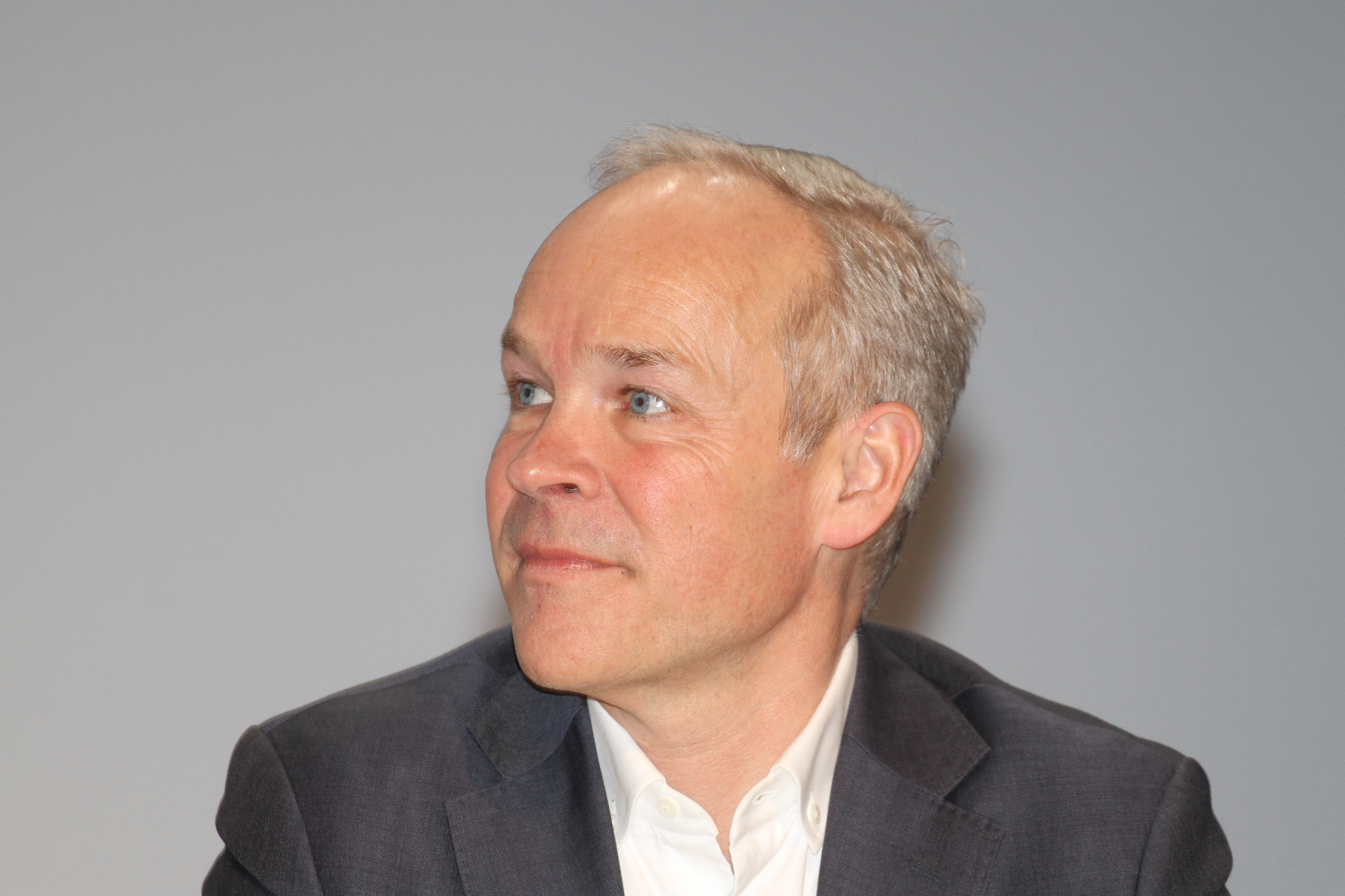 Jan Tore Sanner